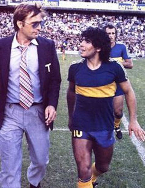 Former player and then coach, Silvio Marzolini (left) with superstar Diego A. Maradona during their time in Boca Juniors.